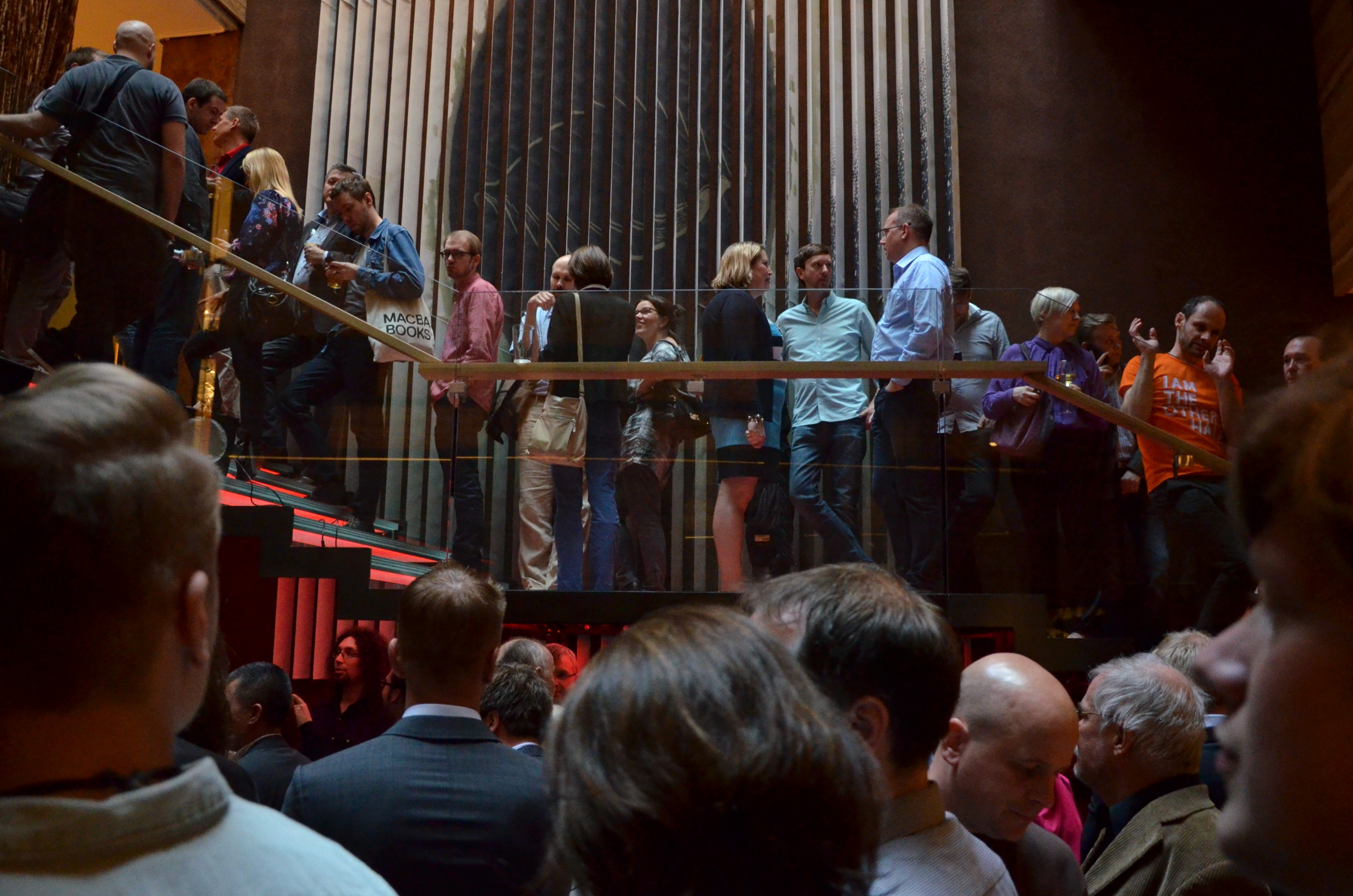 People waiting to get hands on with Jolla's first phone with Marc. Event was Jolla love day at KlausK, Helsinki. ( Mobile Monday: 20.5.2013)